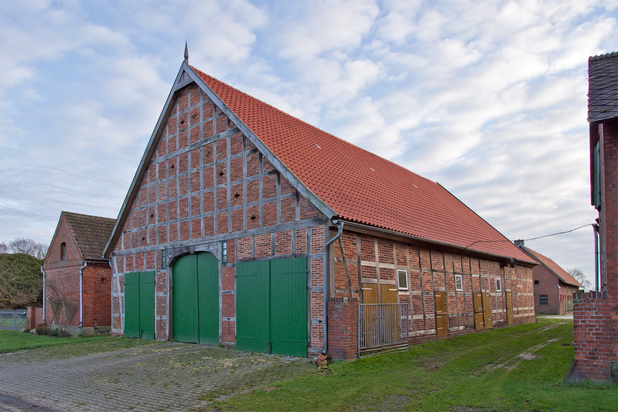 Barn in the small village Dambeck near Dannenberg (district Lüchow-Dannenberg, northern Germany).